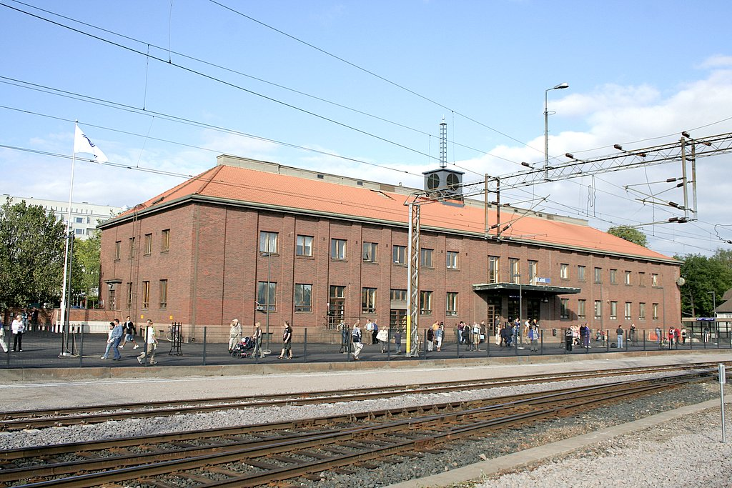 The Railway station of Lahti, Finland. Building: The railway station was build by using dark bricks as the other biggest railway stations in the 1930s in Finland like the railway station of Tampere. The difference between the railway stations in Lahti and Tampere is, that there are only two floors in Lahti (in Tampere theree) and there is not tower in the railway station like in Tampere. Built: 1935, the architect was Thure Hellström, who worked for the Finnish railways as a regular architect. The Finnish railways had had own architects since the 1870s